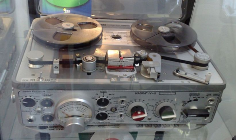 Nagra IV-S - 1/4" tape recorder